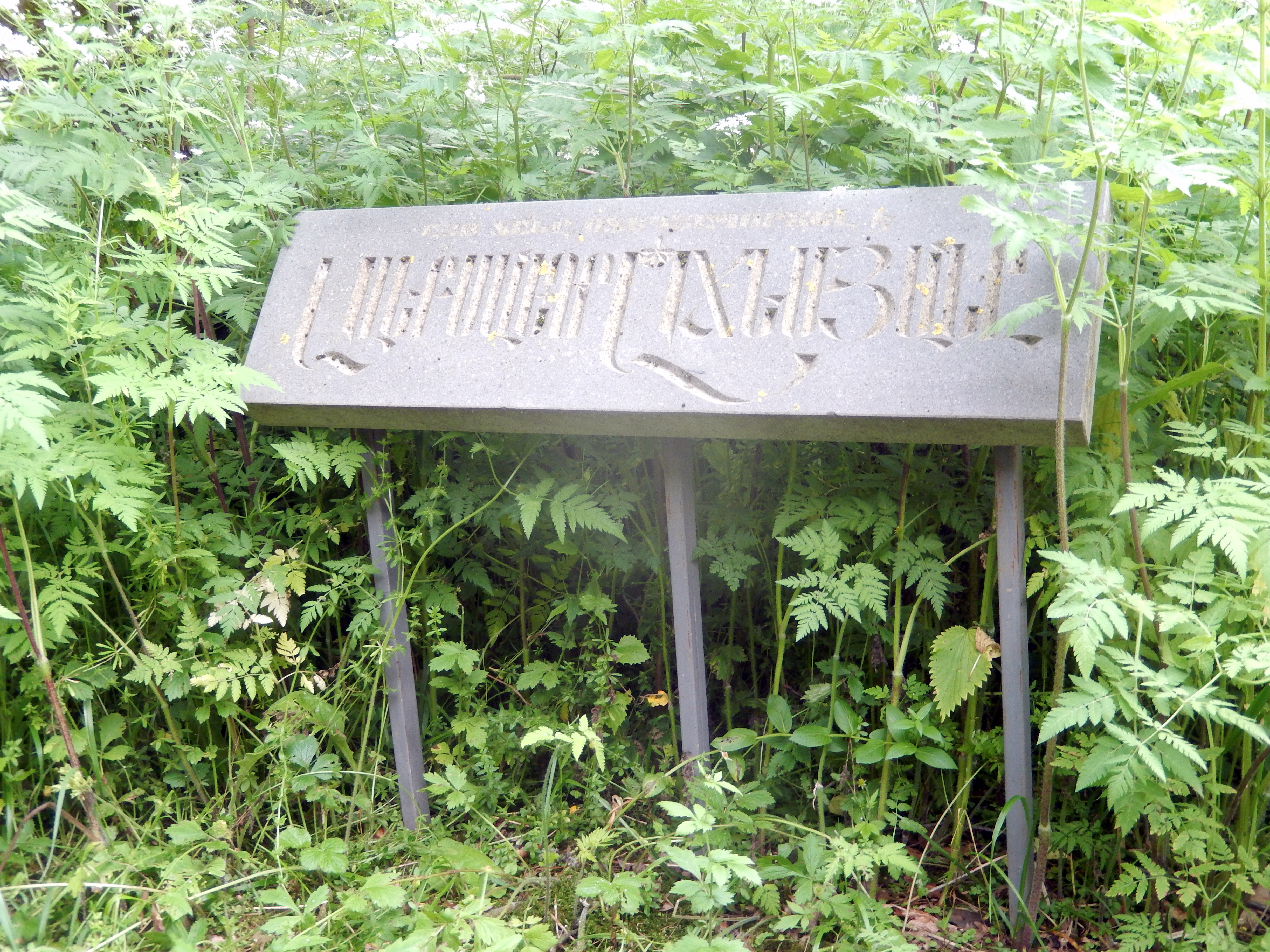 Alexandr Achemyan's plaque in Dilijan